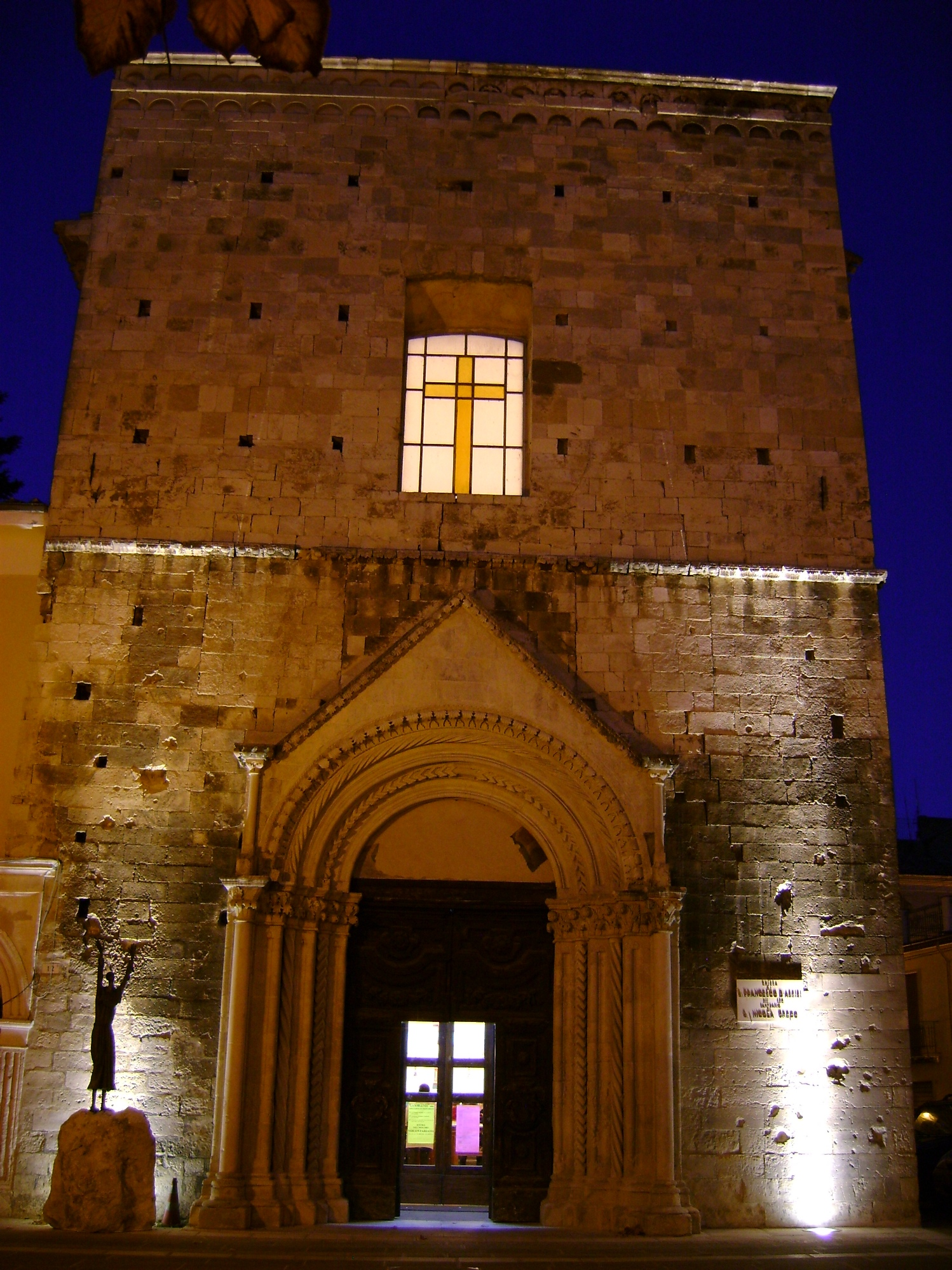 The facade of the church of San Francesco at dusk, Guardiagrele, province of Chieti, Abruzzo